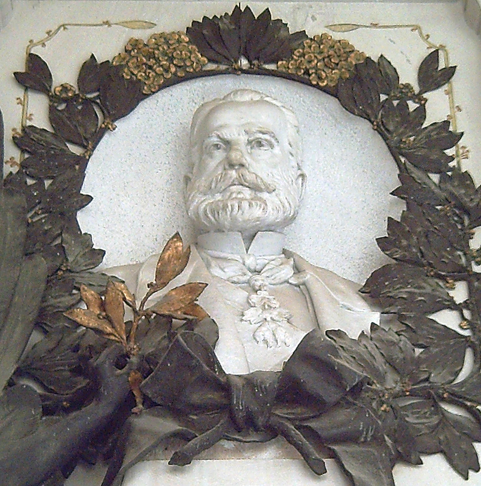 Detail of the mausoleum of Antonio de los Ríos Rosas (1812–1873). Made of white marble and bronze with damascening by Pedro Estany in 1905. It is at the Pantheon of Illustrious Men in Madrid (Spain).